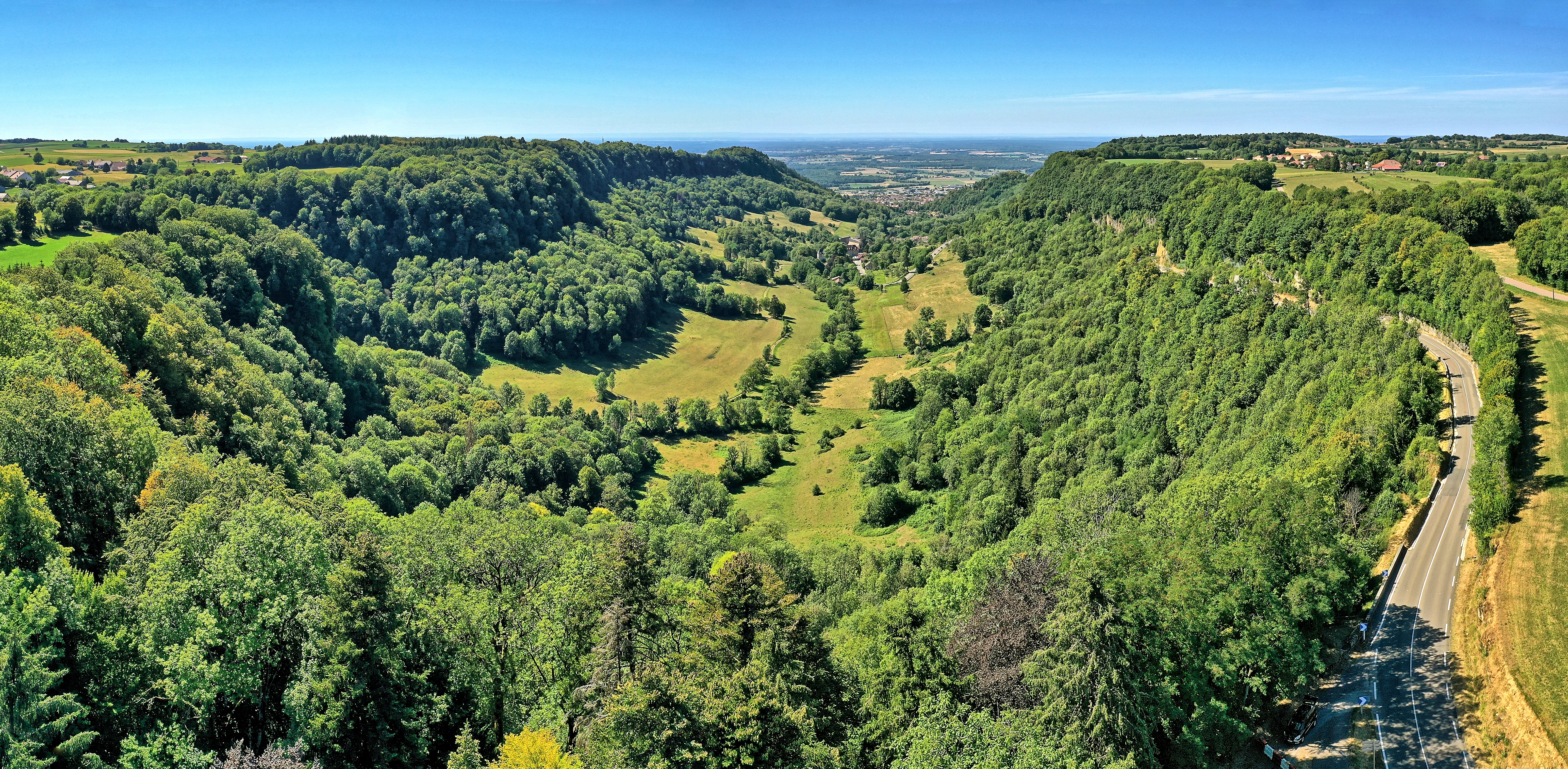 La reculée de Poligny